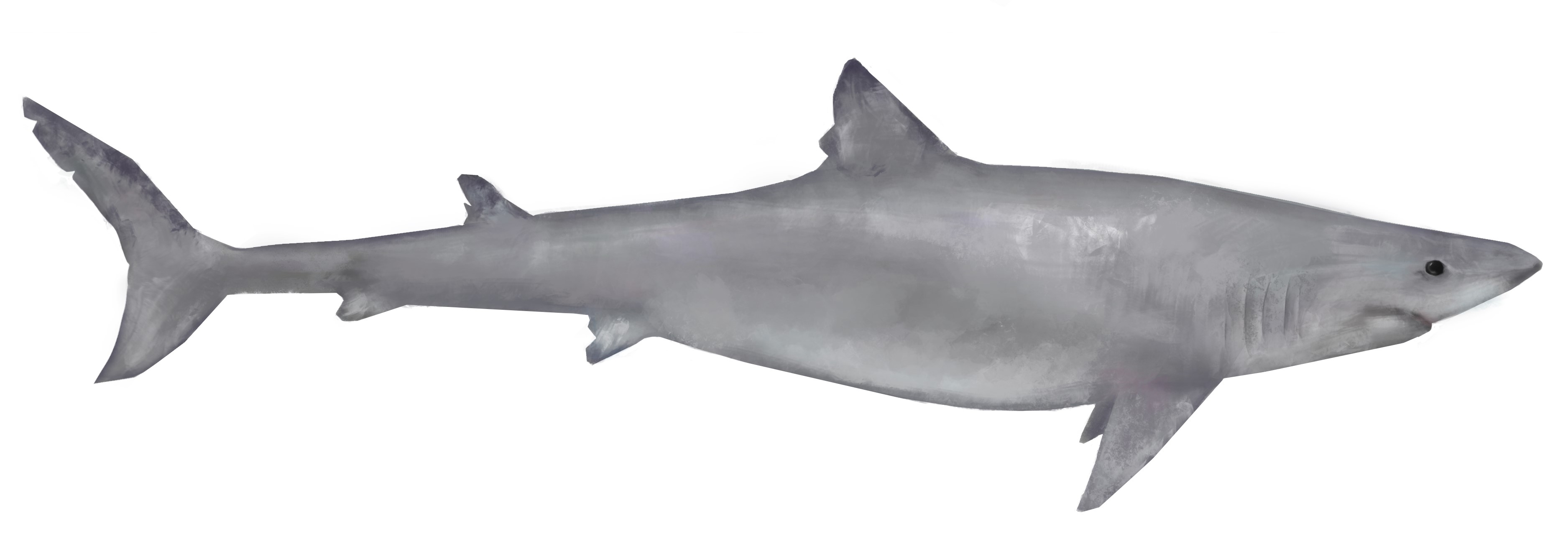 A simple profile view depicting a Cretolamna shark, which is an extinct shark genus from the Cretaceous and early parts of the Cenozoic. This is an artistic impression inspired by modern lamniformes such as the great white shark. Created for use on the Cretolamna Wikipedia page. Free for use by anyone, provided credit is given. Original artwork done by Pedro Ragazzi